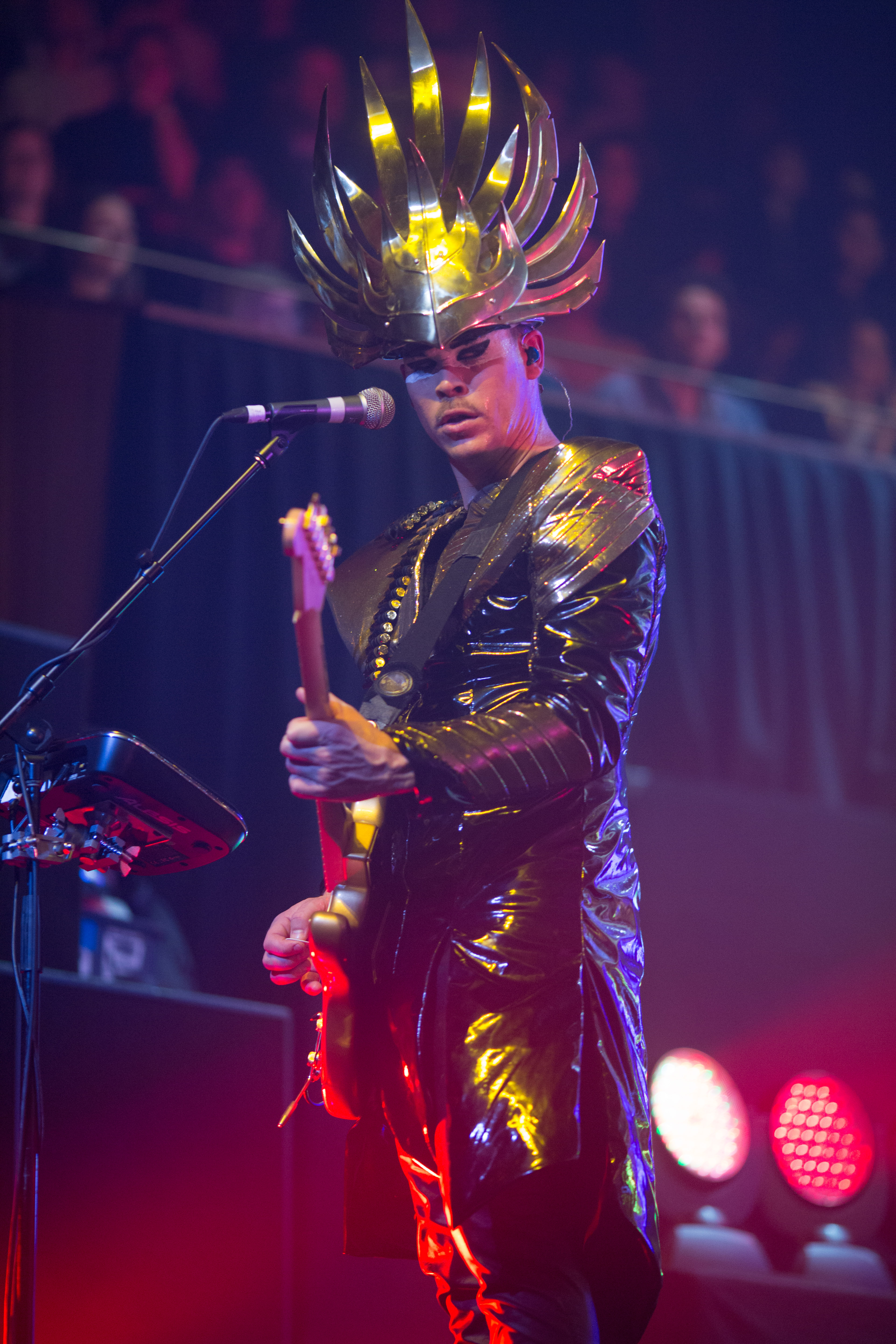 Empire of the Sun